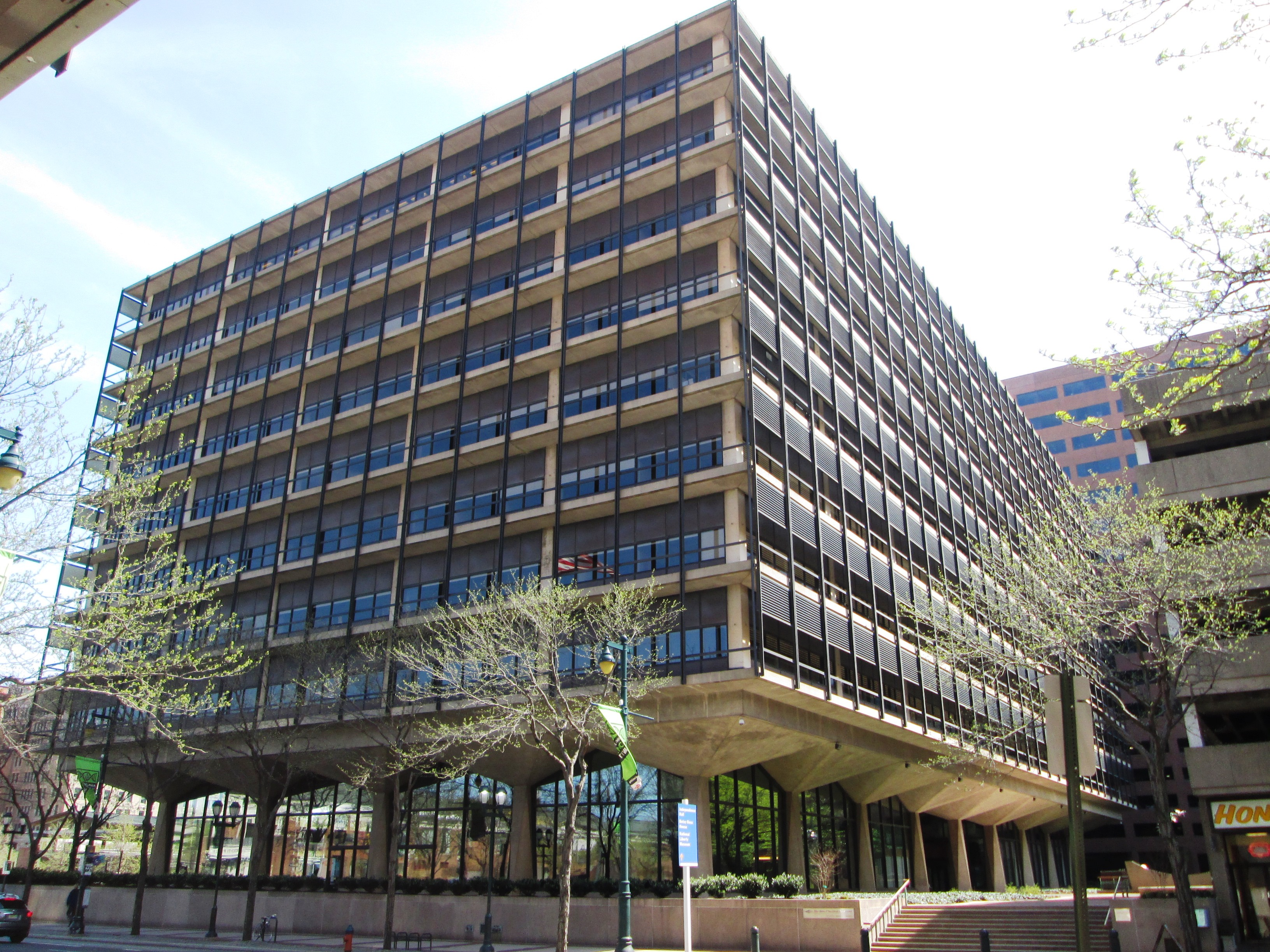 The Rohm and Haas Corporate Headquarters building at 100 South Independence Mall West at the corner of Market Street in Philadelphia, Pennsylvania is the headquarters for the chemical manufacturing company Rohm and Haas, which was founded in 1909. Completed in 1964, the building was the first private investment for the urban renewal of the Independence Mall area. The International style building was designed by Pietro Belluschi, dean of the M.I.T School of Architecture, and George M. Ewing Co. In 2007 the Rohm and Haas Corporate Headquarters was listed on the National Register of Historic Places, the company is now a wholly-owned subsidiary of Dow Chemical Company.